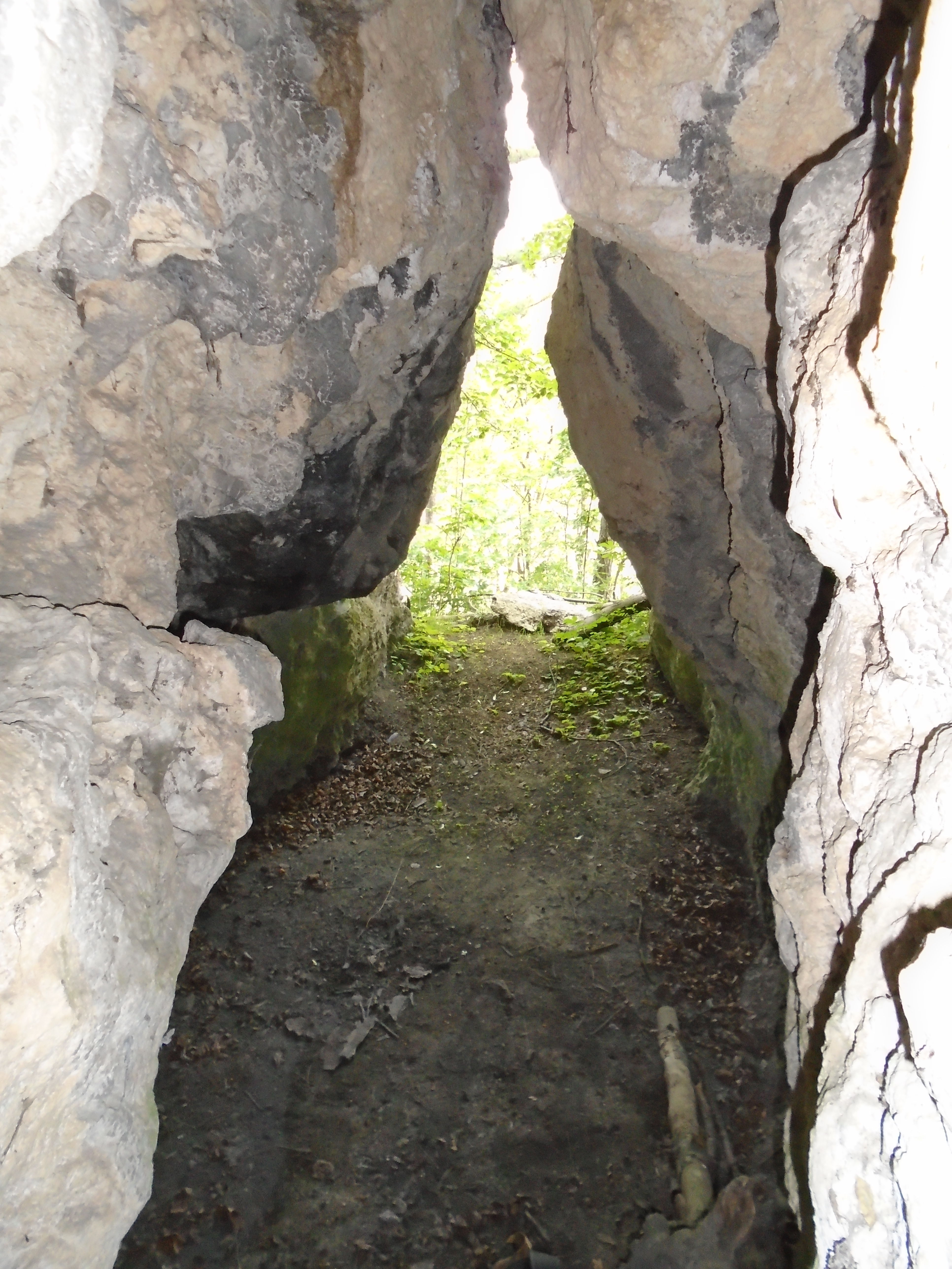 Nagyszénási Cavity.